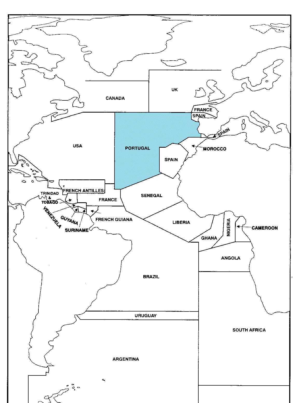 Portuguese Search and Rescue Area